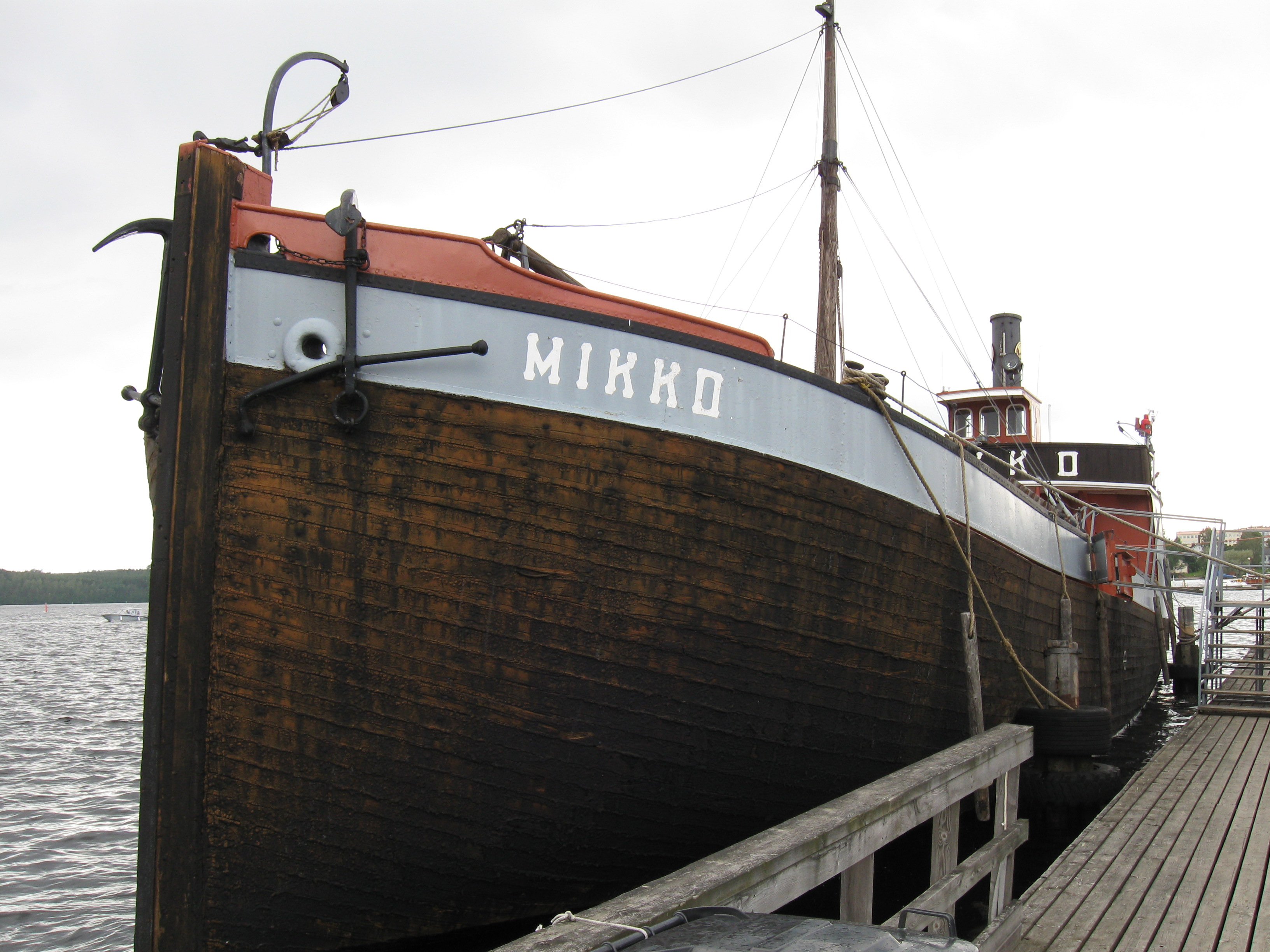 The wooden steam ship "Mikko" located in Savonlinna, Finland, built in 1914 and originally named to "Ensi".